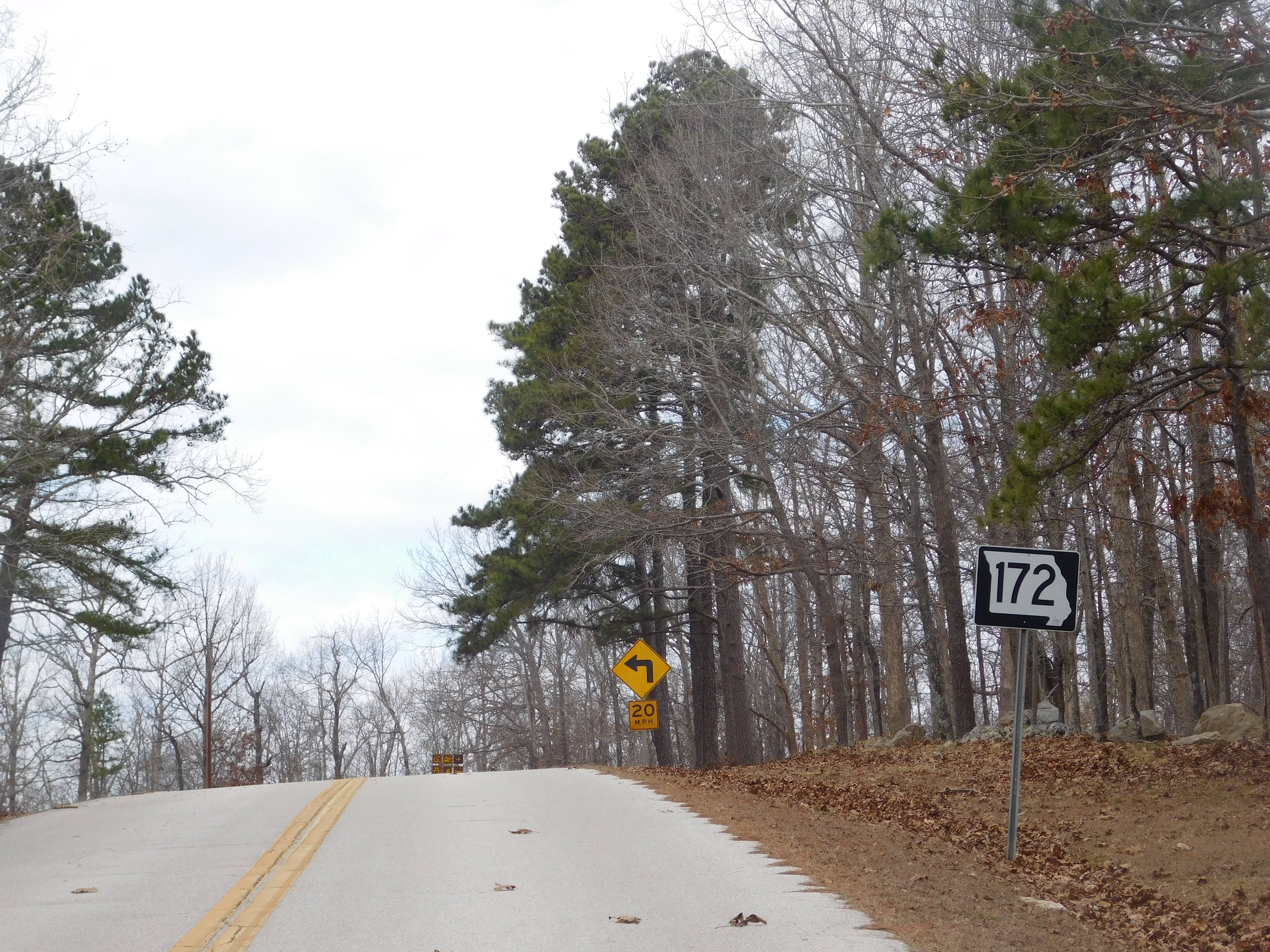 Missouri Route 172 westbound in Lake Wappapello State Park